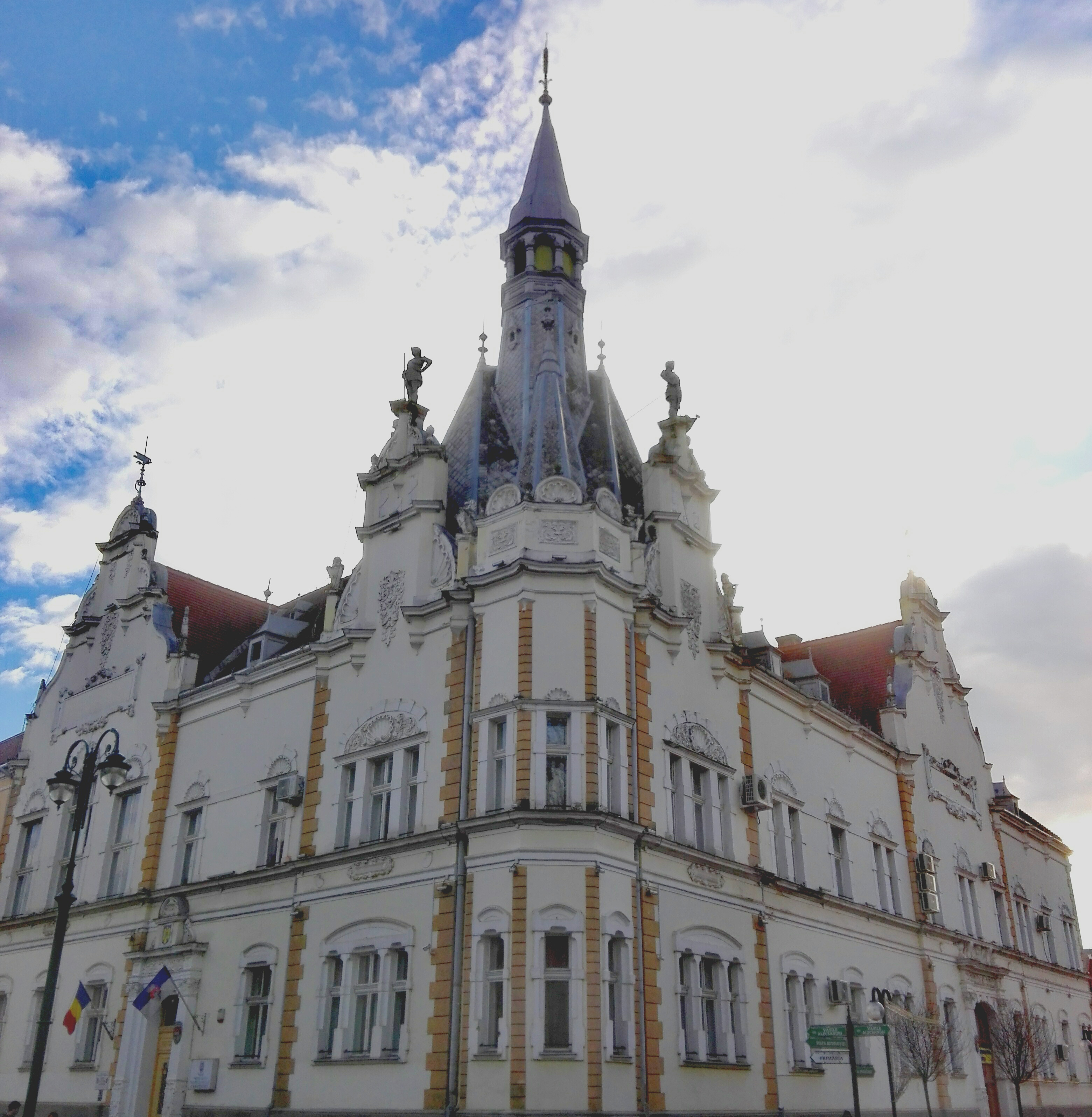 The Town Hall of Caransebeș.